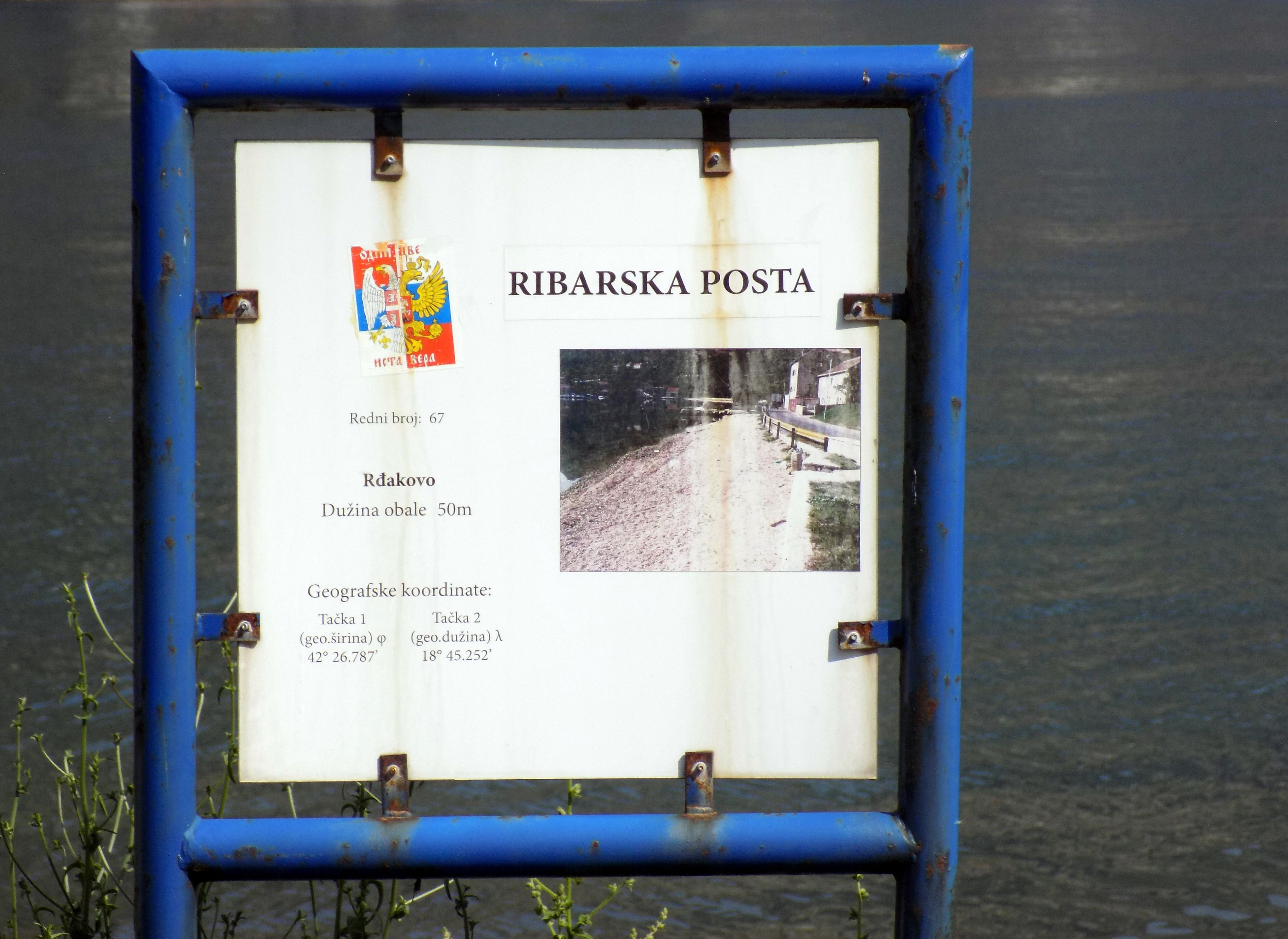 Fishing post in Bay of Kotor, near Prčanj, Montenegro - info board